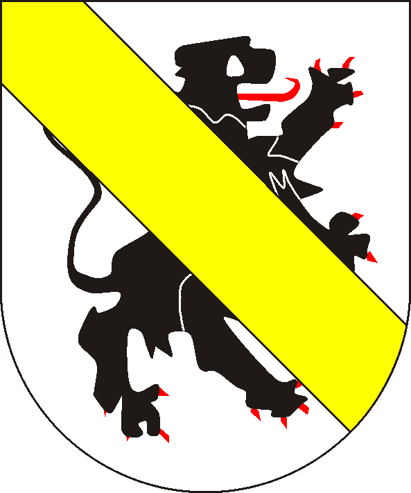 coat of arms Blankenhain (part of coat of arms of grand-duchy of Saxe-Weimar)